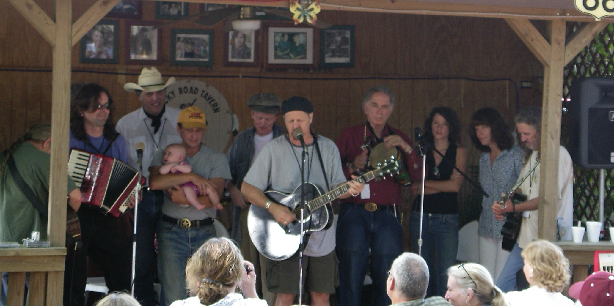 Jimmy LaFave leads a group at the Woody Guthrie Folk Festival in July 2005. The group includes Joel Rafael, Radoslav Lorcovic, Rob McNurlin, David Amram, Sarah Lee Guthrie, Marie Burns, Bob Childers and others. Jimmy LaFave, at the Woody Guthrie Folk Festival July 2005